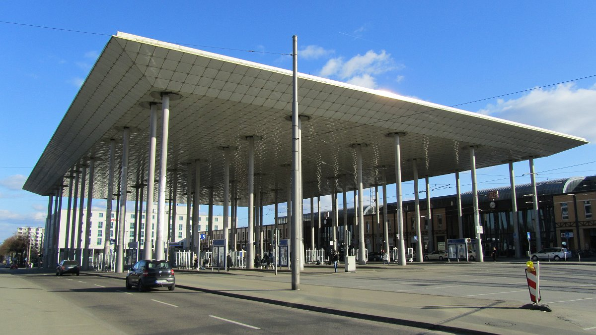 Germany / Cassel: train station "Fernbahnhof Wilhelmshöhe"